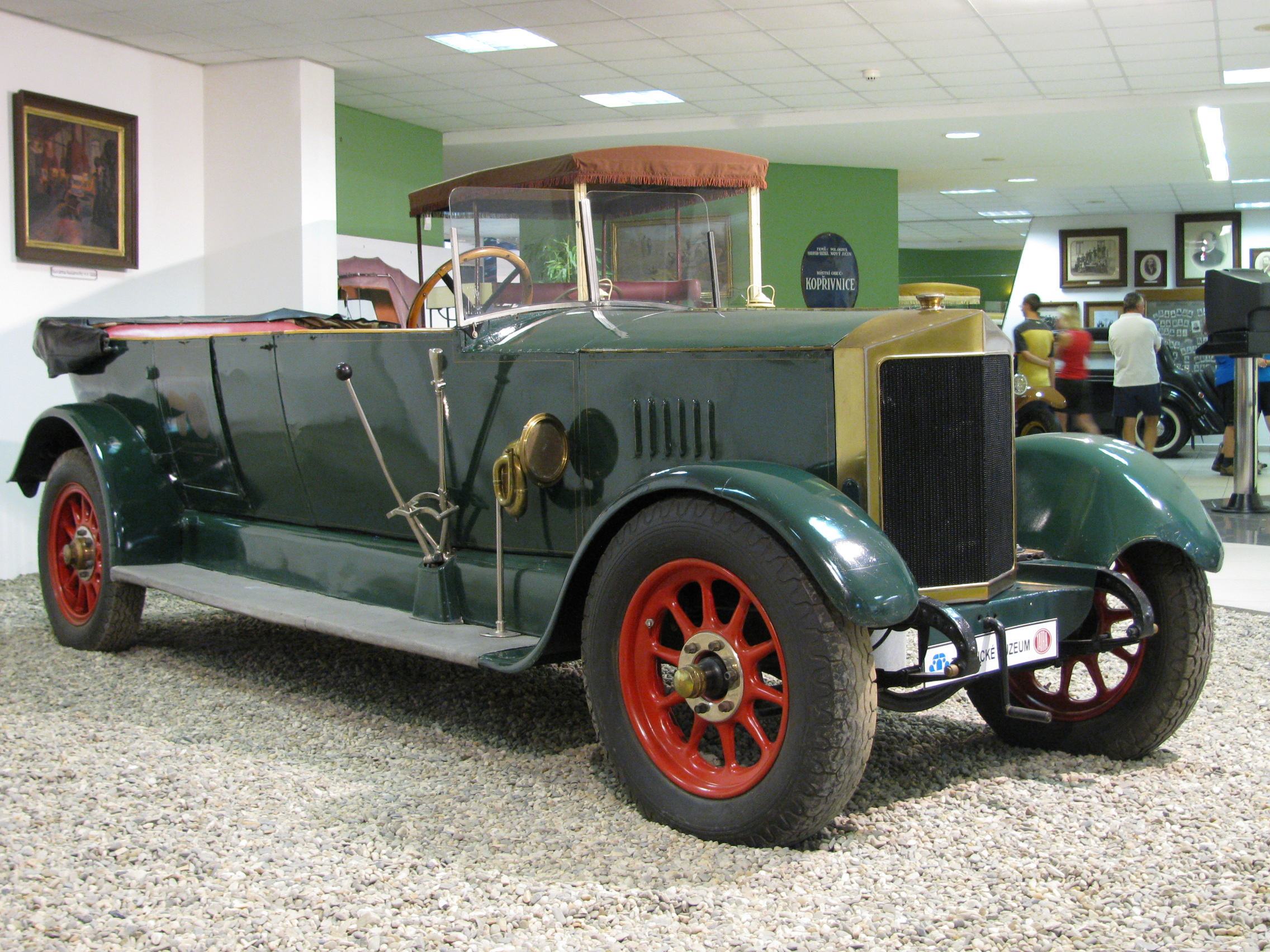 NW S in Tatra Technical Museum, Kopřivnice, Czech Republic.